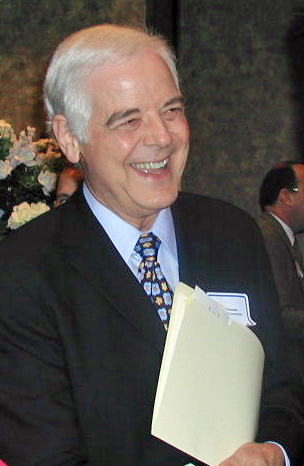 Adapted from :Image:Ccf_new_ClooneyALL.jpg Nick Clooney